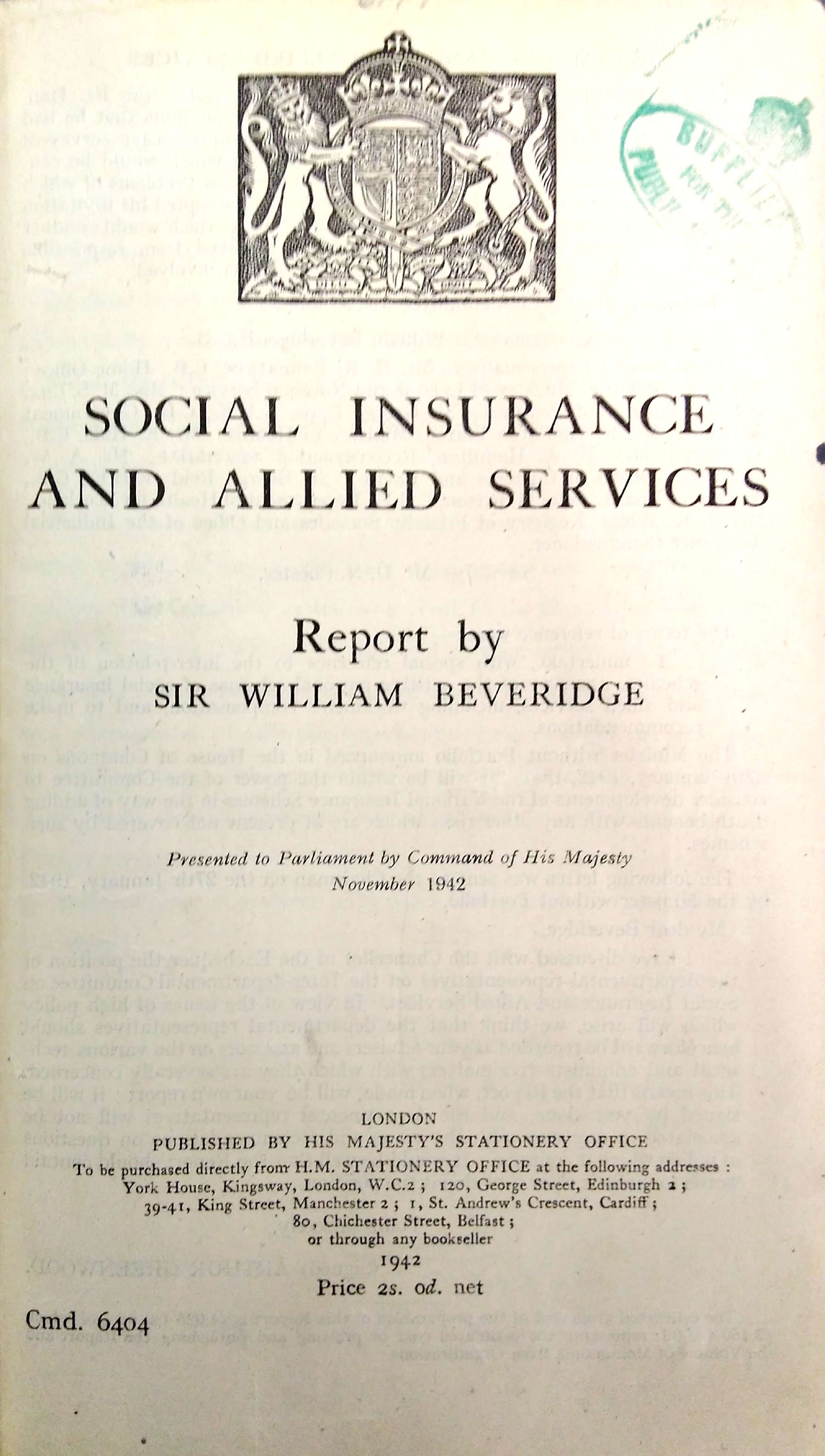 The title page of Social Insurance and Allied Services, published in 1942, more commonly known as the Beveridge Report.